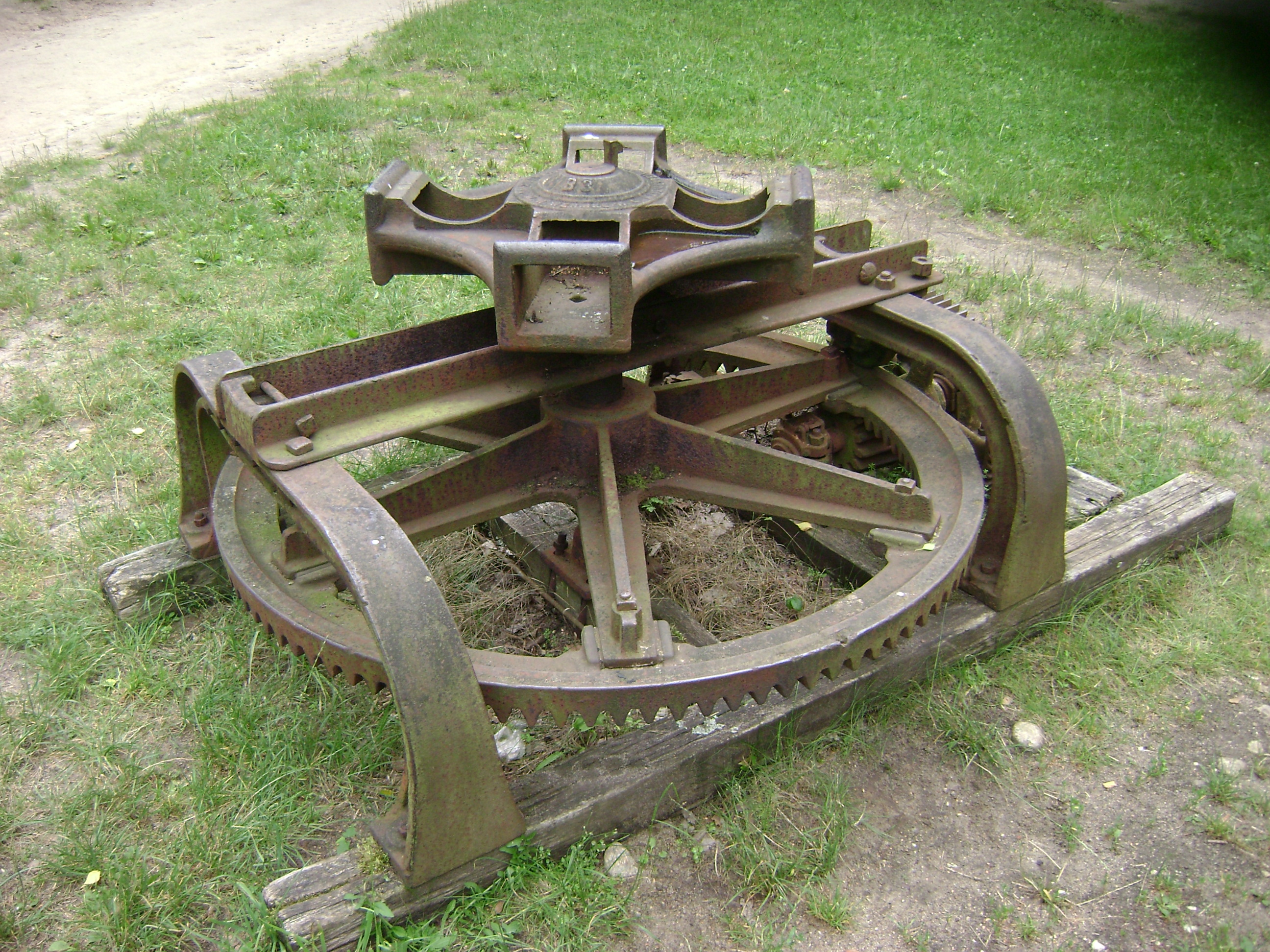 Poland. Olsztynek. Open air museum. (Skansen). Treadwheel.